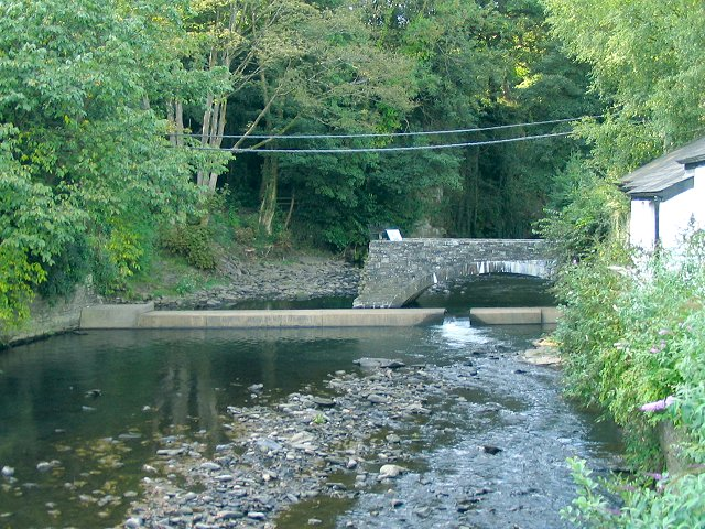 River Dulais, Vale of Neath. Looking upstream from the road bridge on the A4109 at Aberdulais the remains of its predecessor can be seen crossing half the river.